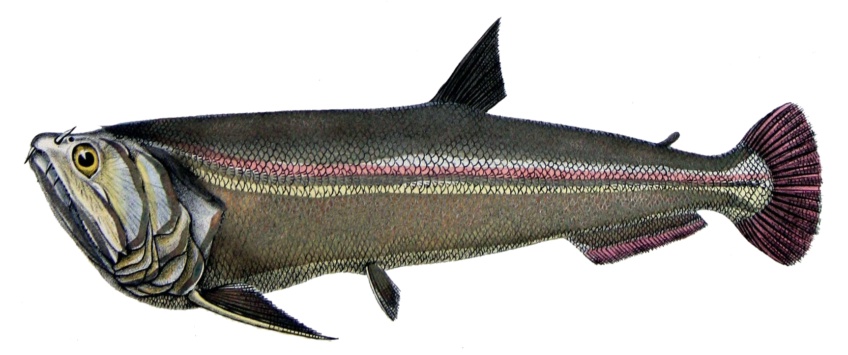 Hydrolycus scomberoides